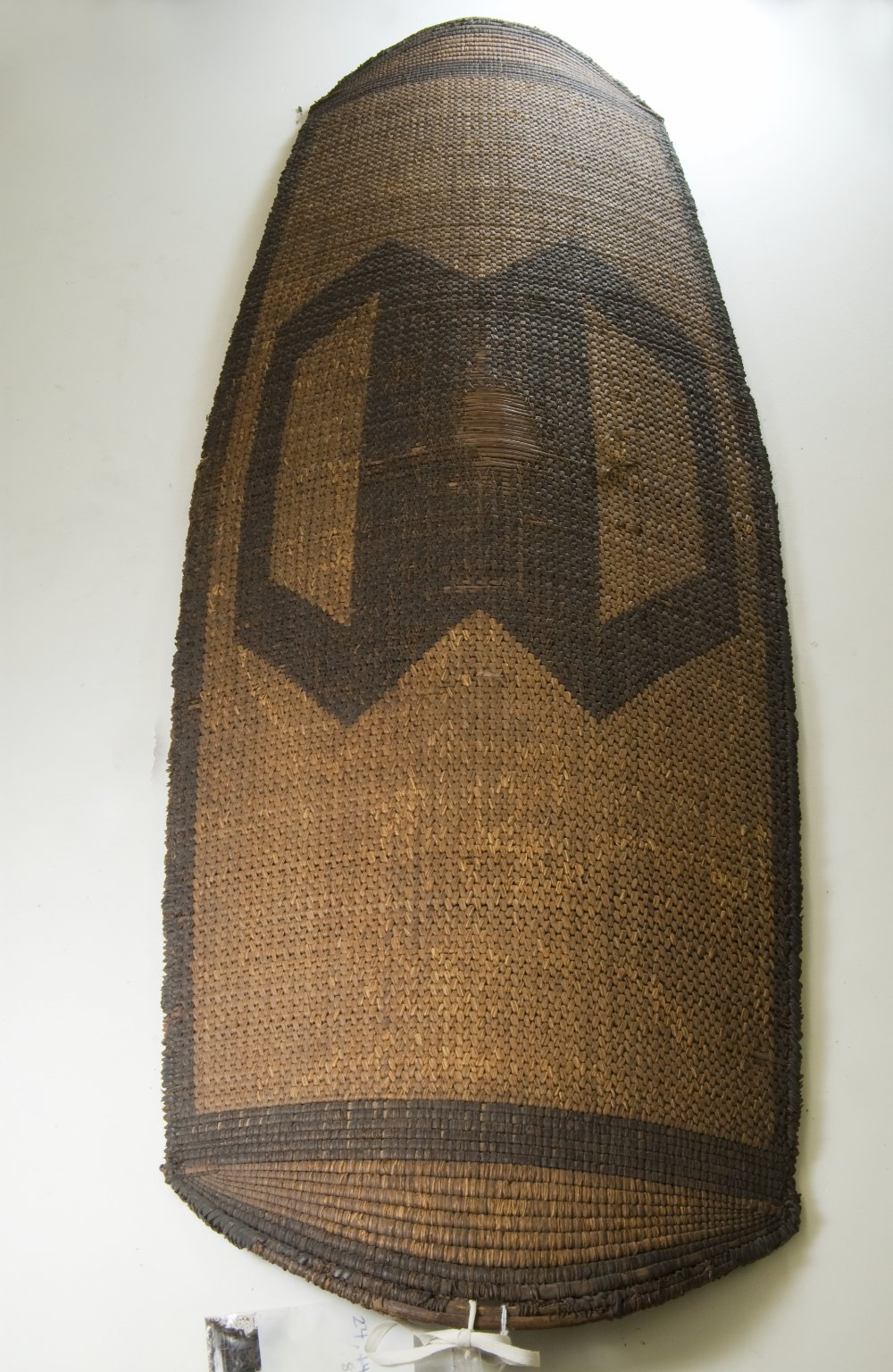 Shield